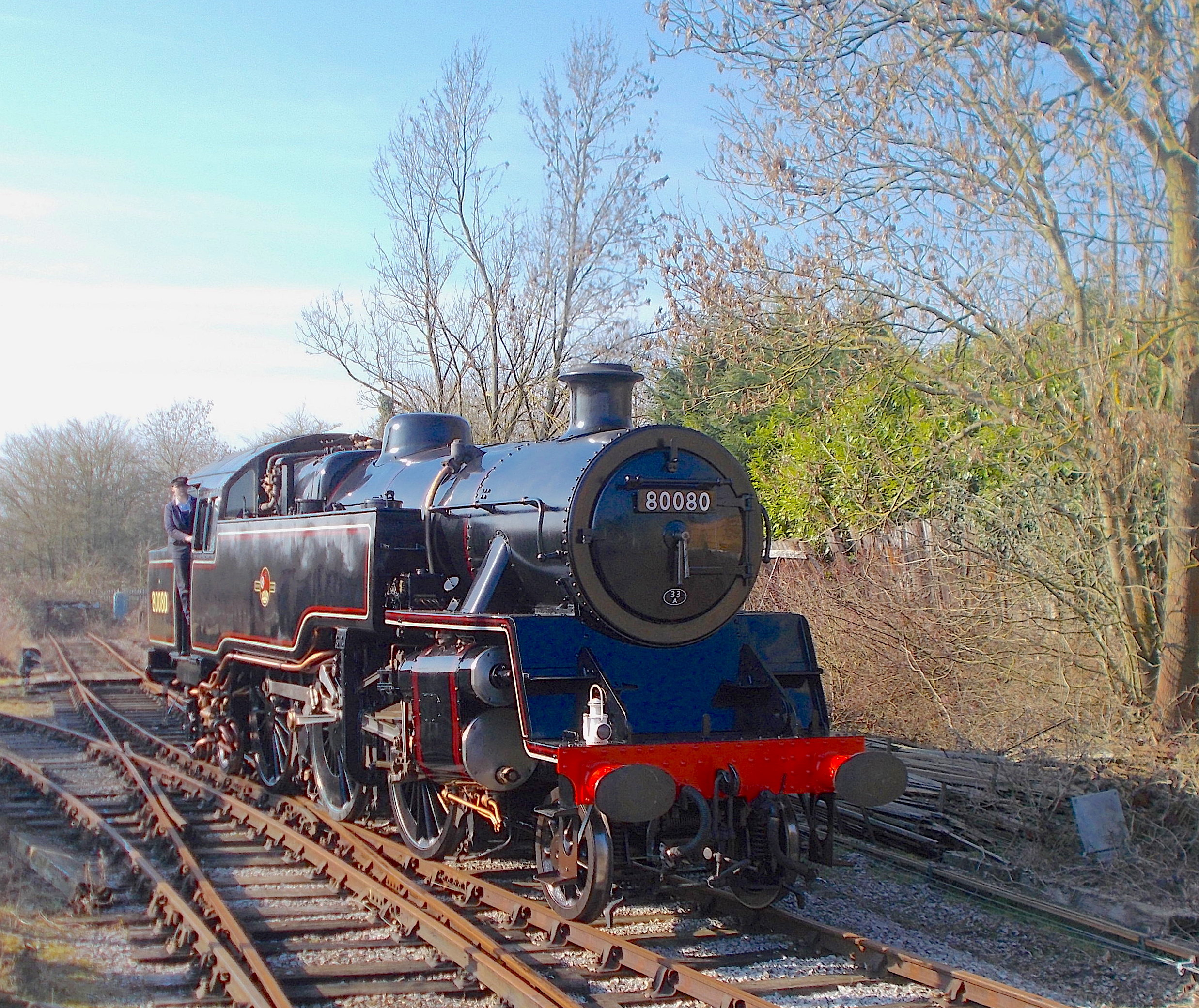 Newly overhauled British Railways 2-6-4T Class Standard Four No. 80080 runs round the train at Hammersmith Railway Station